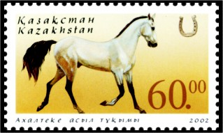 Stamp of Kazakhstan